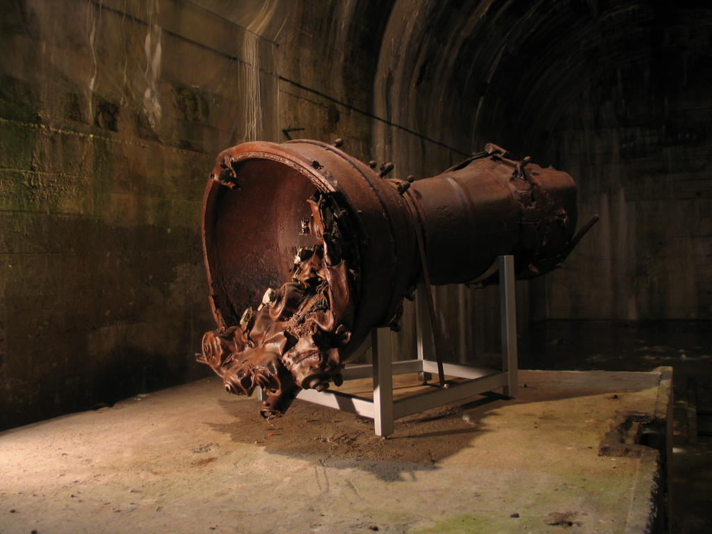 Damaged engine of a V2